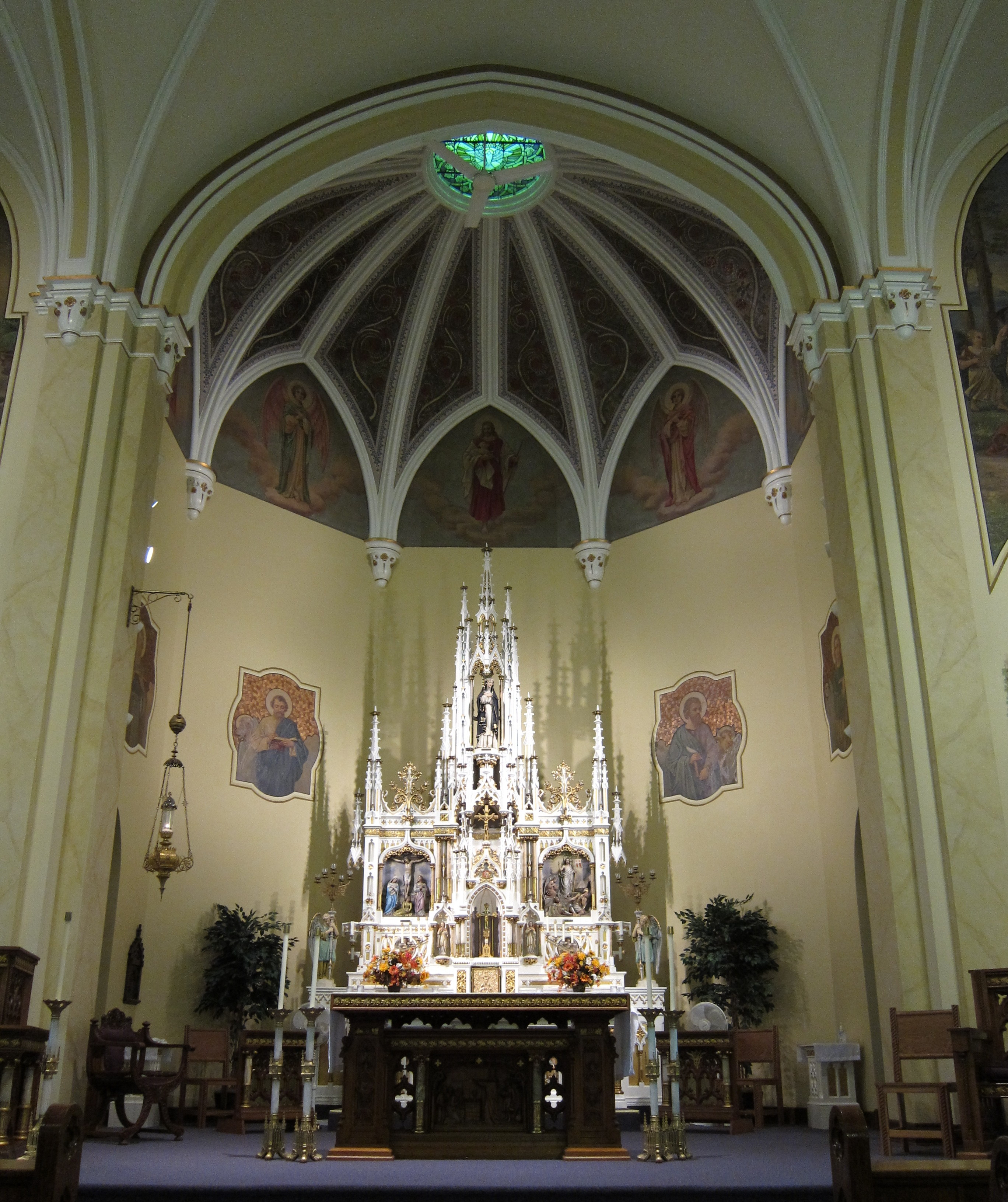 Saint Rose Catholic Church (Saint Rose, Ohio) - interior, sanctuary